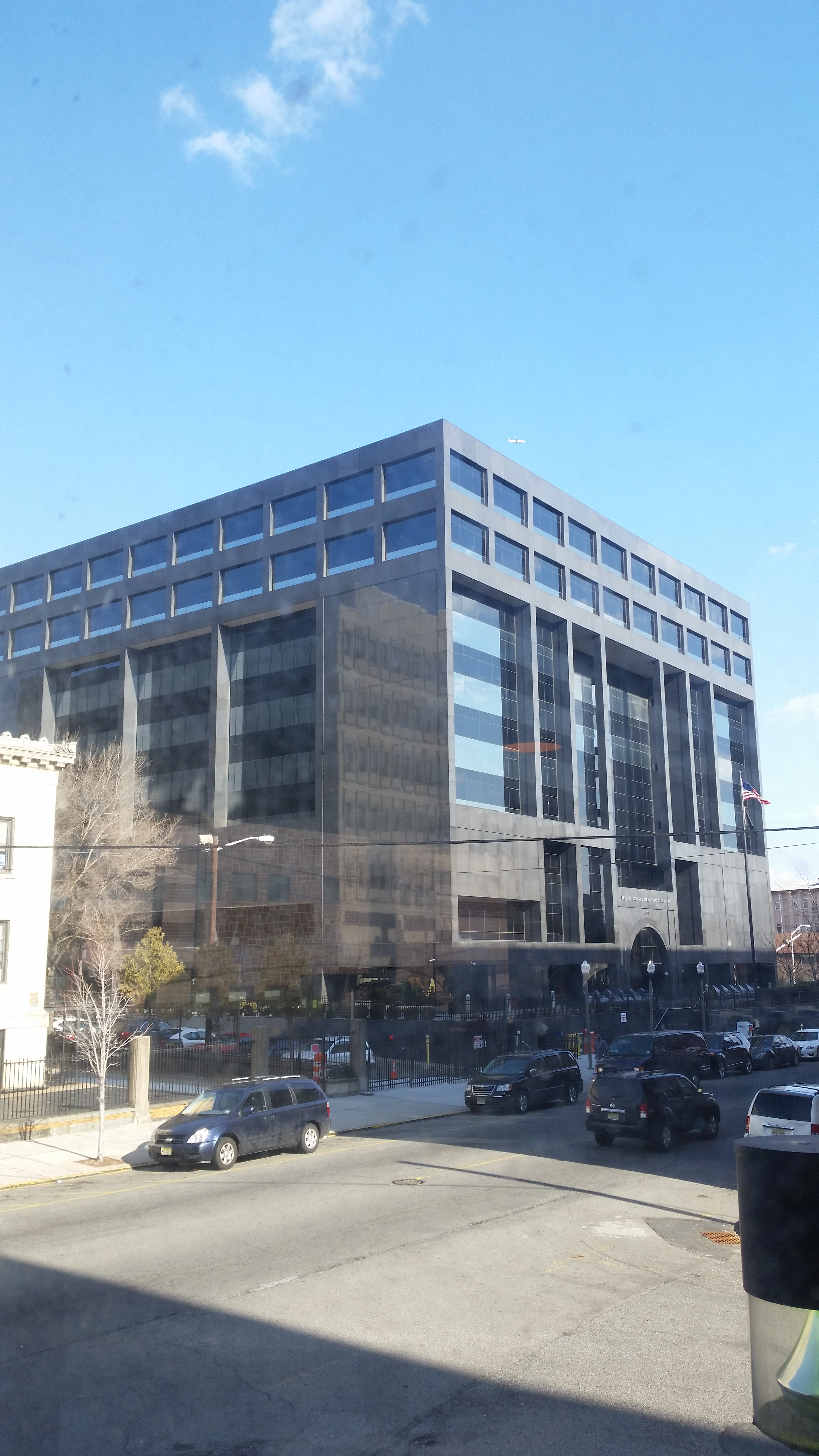 The Passaic County Administration Building, as seen from the Employee Garage stairwell